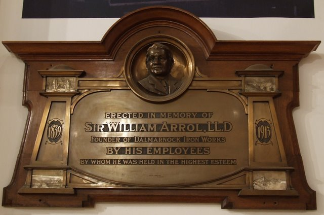 Sir William Arrol memorial Within the People's Palace museum. Arrol's was one of the greatest engineering companies in Scotland and built the Tay and Forth rail bridges as well as Tower Bridge in London.